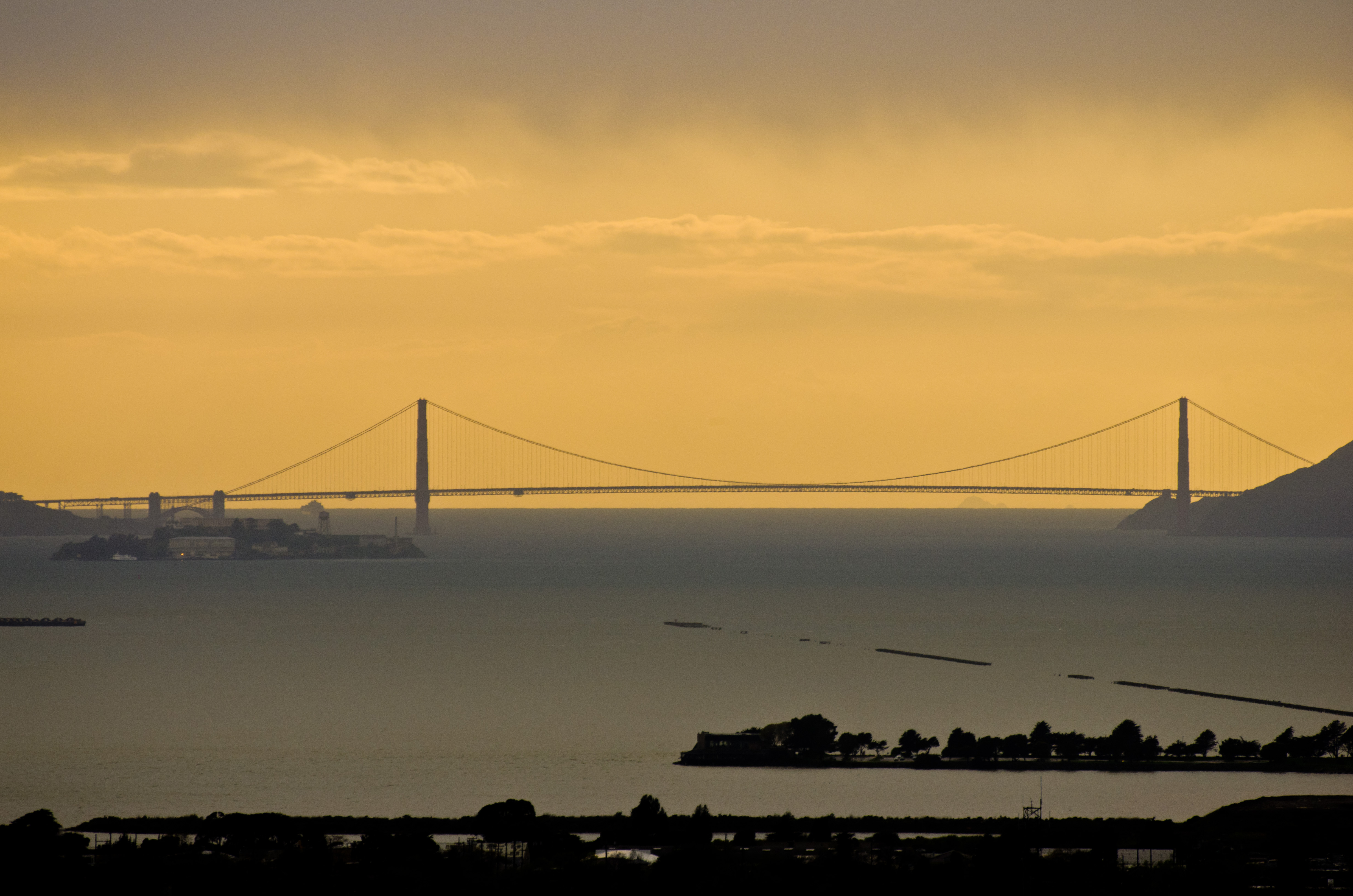 San Francisco Bay Area (from UC Berkley)